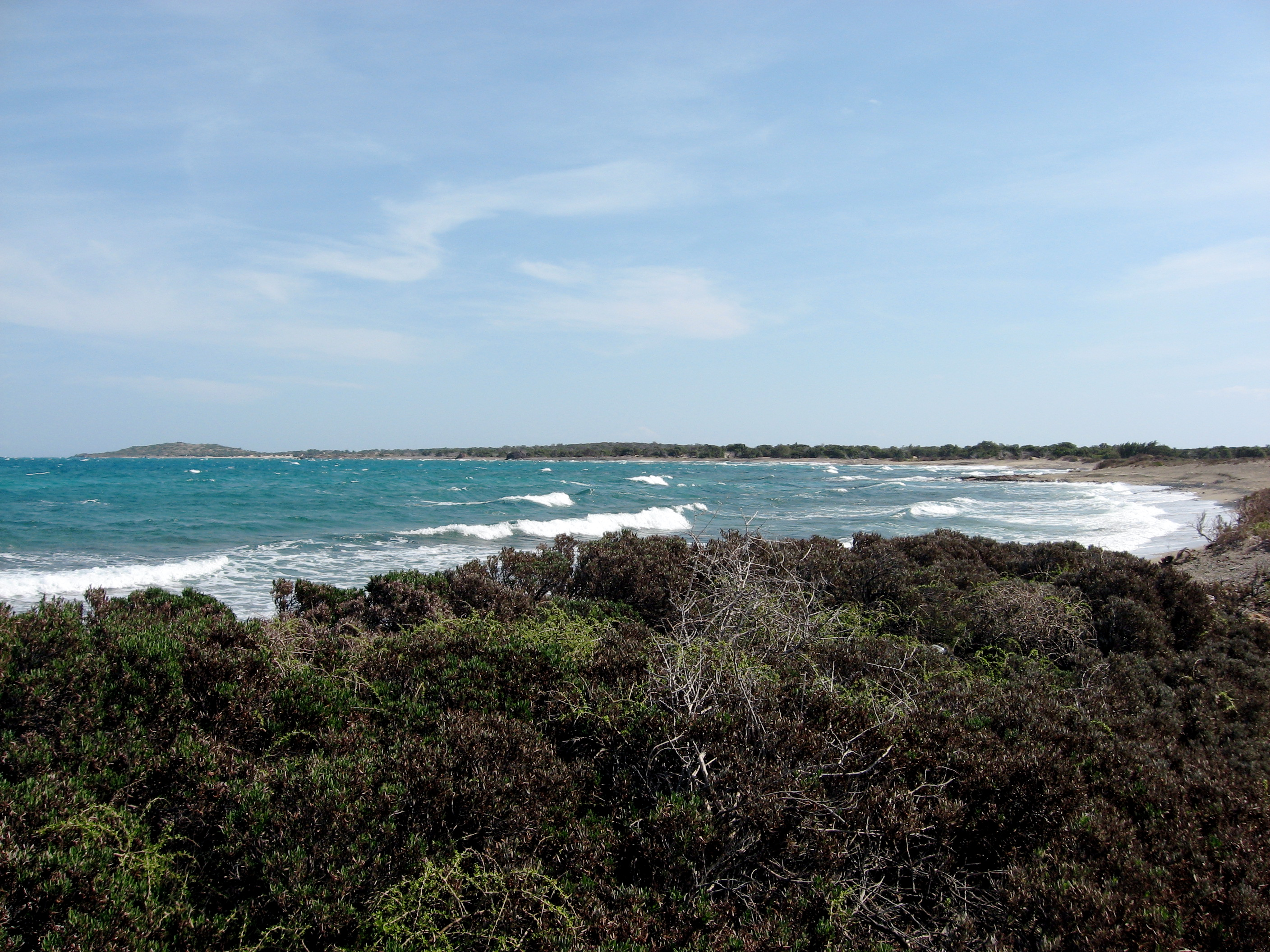 IMG_0023.JPG Chrissi island, Ierapetra, Crete